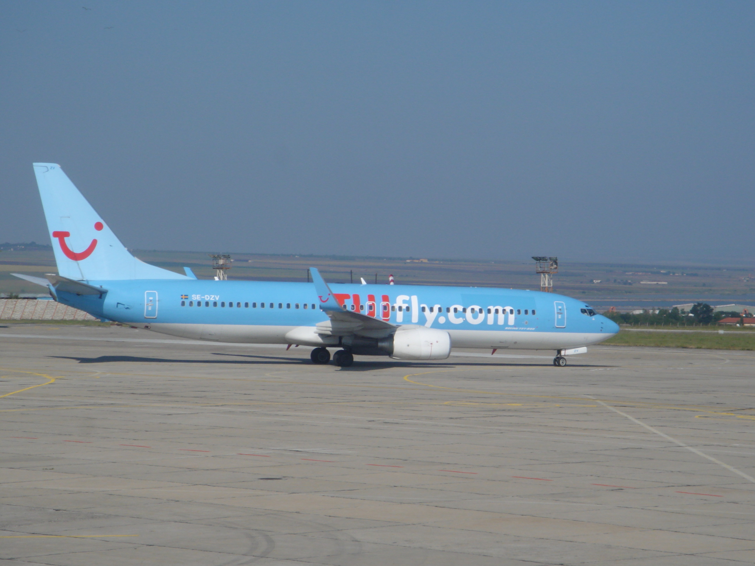 A Boeing 737-800 of TUIfly Nordic in Burgas Airport in August 2006.